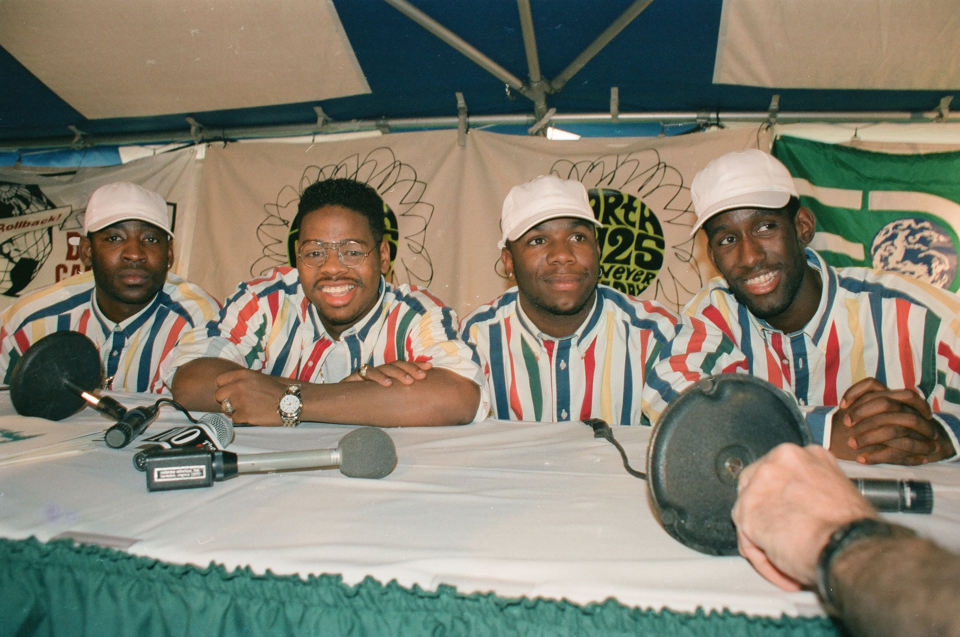 From Wash. D.C. 1995 " Earth Day "